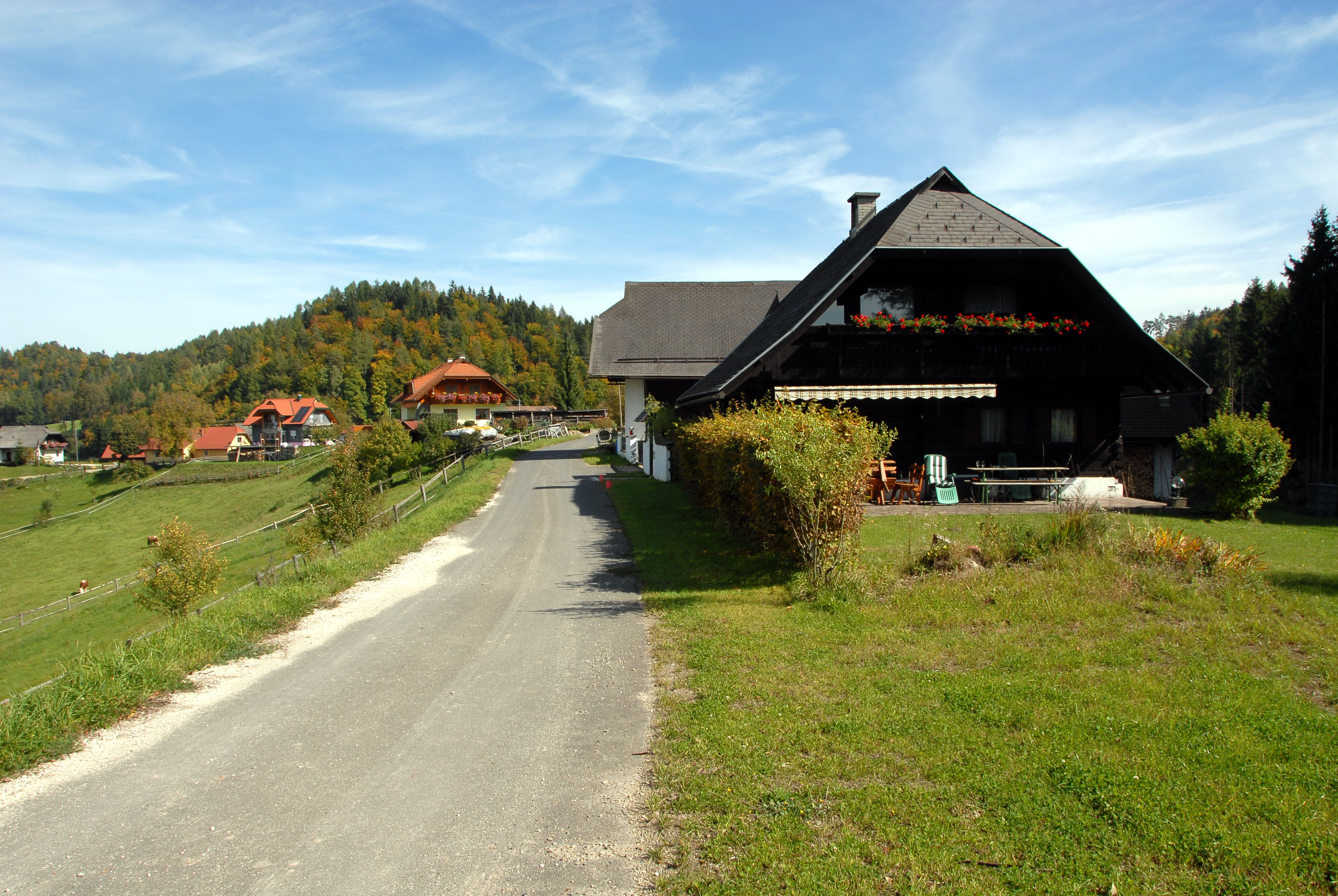 Village and locality Skarbin in the community Grafenstein, district Klagenfurt Land, Carinthia, Austria